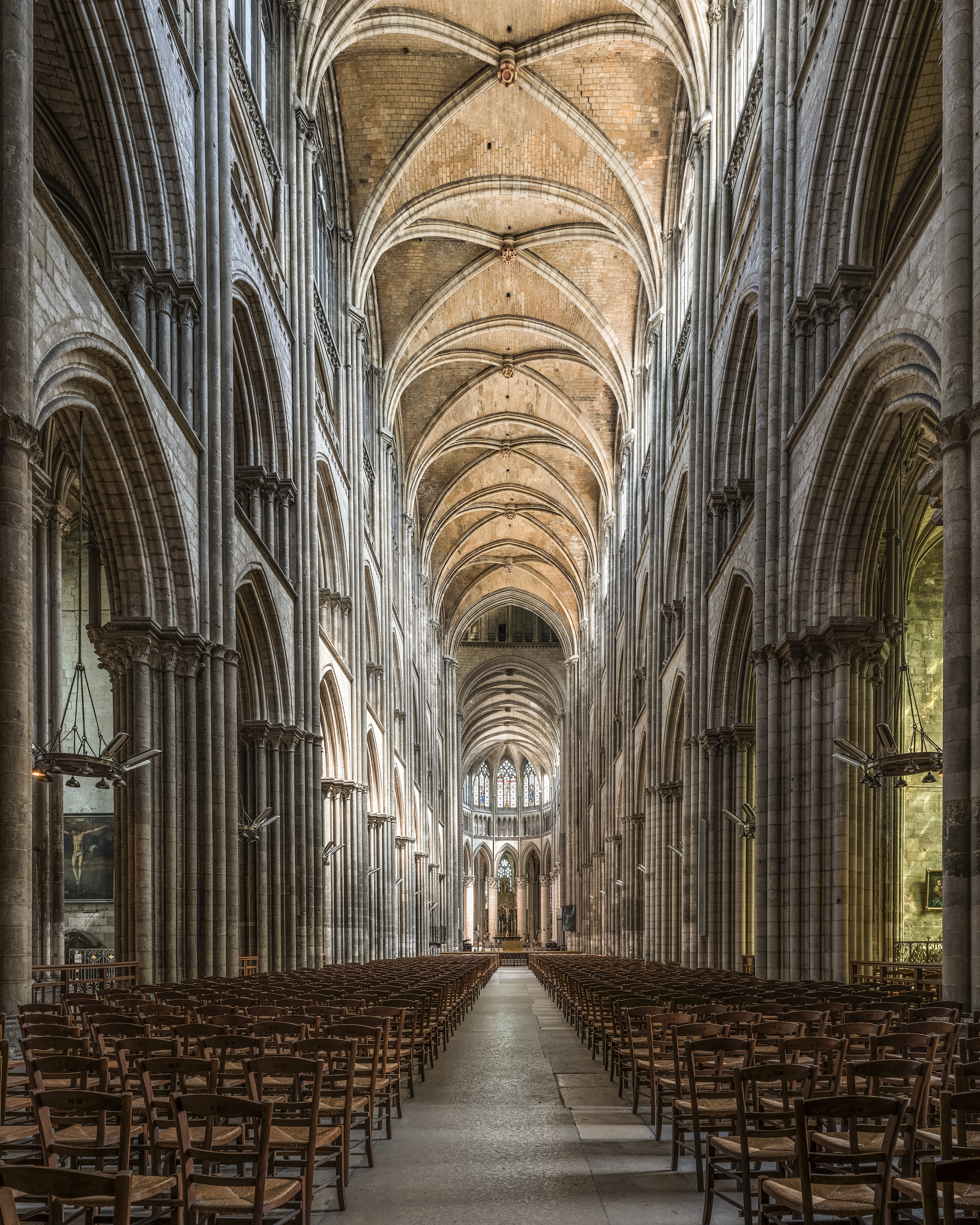 The nave of Notre-Dame de Rouen